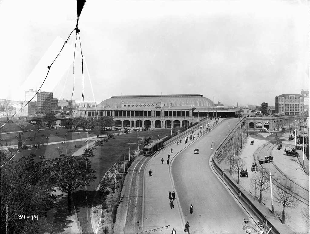 Format: Glass plate negative. Repository: Tyrrell Photographic Collection, Powerhouse Museum Part Of: Powerhouse Museum Collection General information about the Powerhouse Museum Collection is available at Persistent URL: [1] Acquisition credit line: Gift of Australian Consolidated Press under the Taxation Incentives for the Arts Scheme, 1985